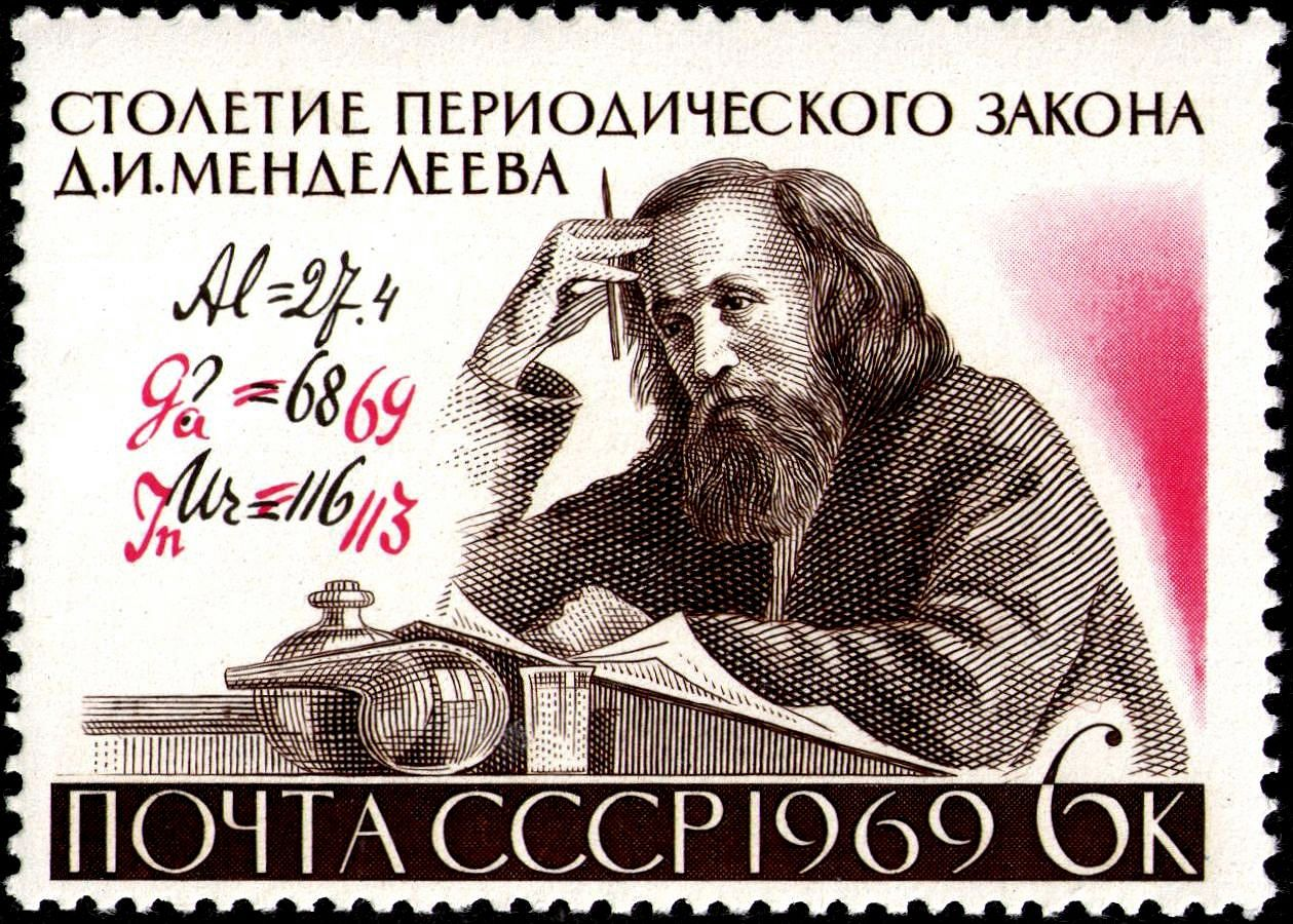 100th anniversary of Dmitri Mendeleev's Periodic Table.The portrait of Dmitri Mendeleev after the painting Dmitri Mendeleev at the Working Desk by Nikolai Yaroshenko[1]. Oil on canvas. 1886. Museum Archive of Dmitri Mendeleev at the Saint Petersburg State University.The stamp of the Soviet Union, 6 kopecks, 20 June 1969, CPA Catalogue No 3761, Michel No 3634, Scott No 3607, Yvert No 3501. Intaglio printing. Colours: greyish-brown, carmine. Perforation: comb 12½×12. Size of the stamp: 52×37 mm. Print run: 4,000,000.